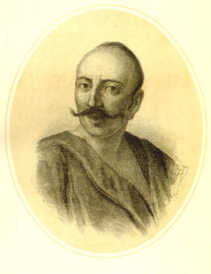 Ivan Gonta.